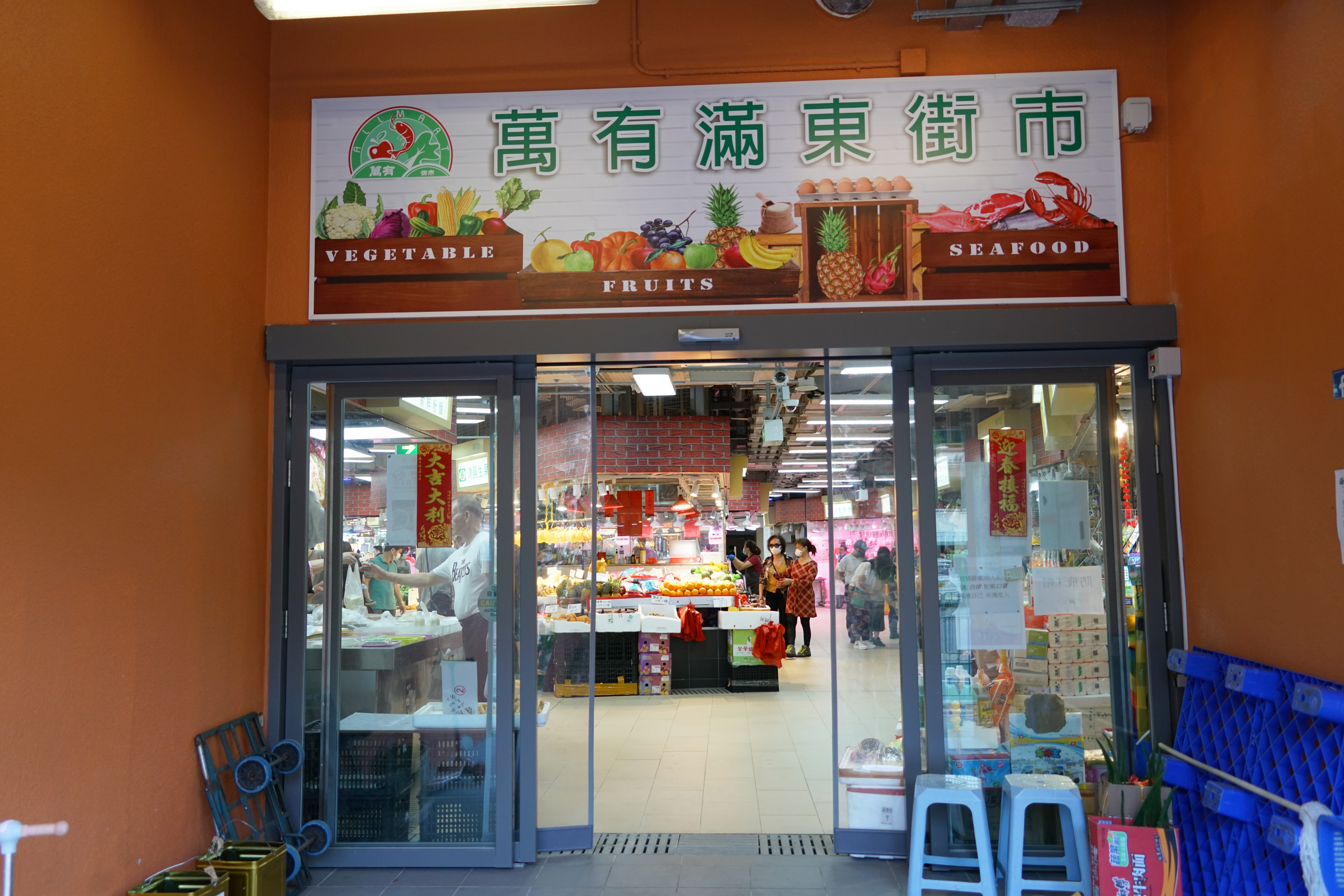 Allmart Mun Tung Market, Hong Kong.